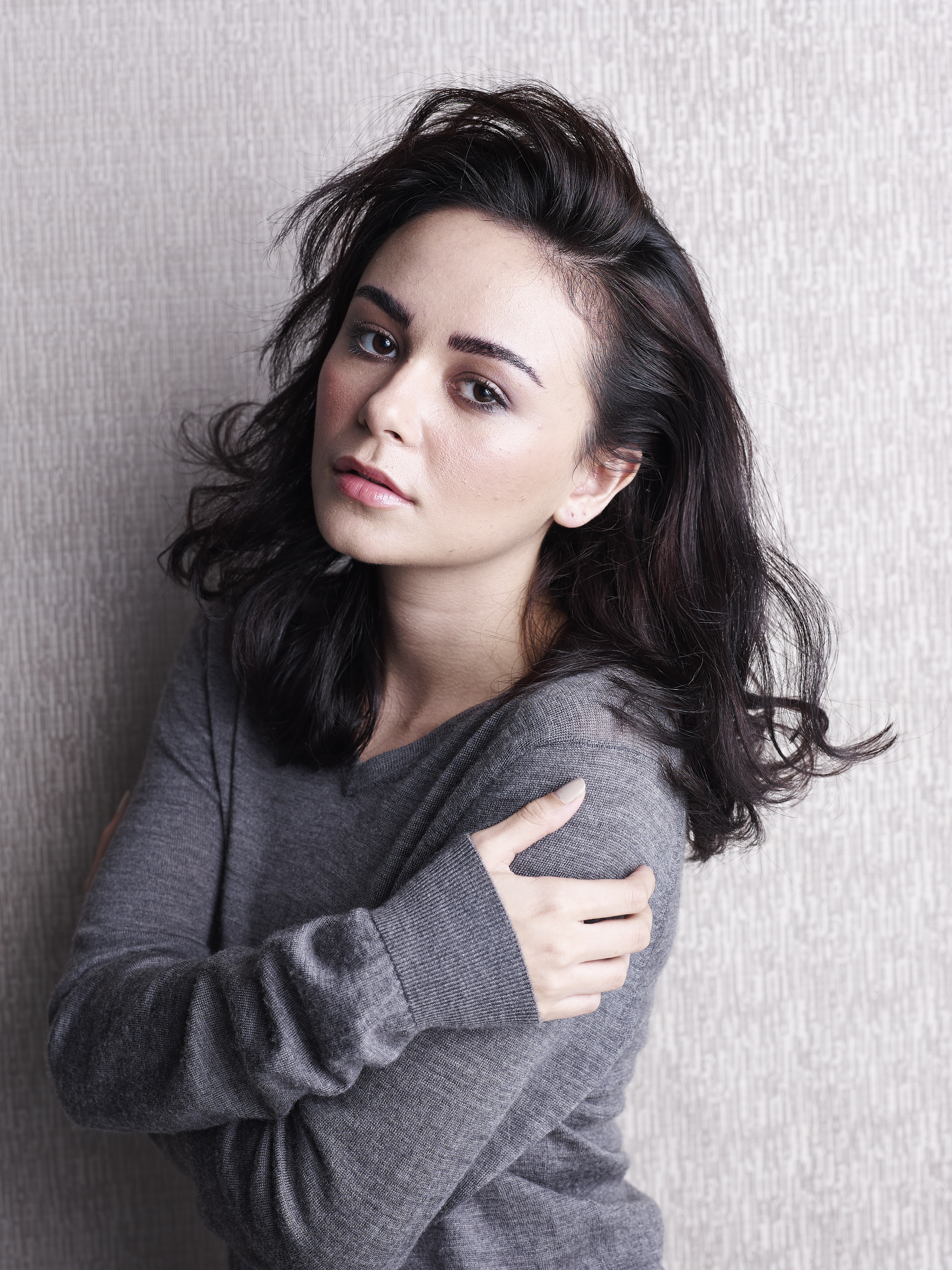 sarah hildebrand photoshoot